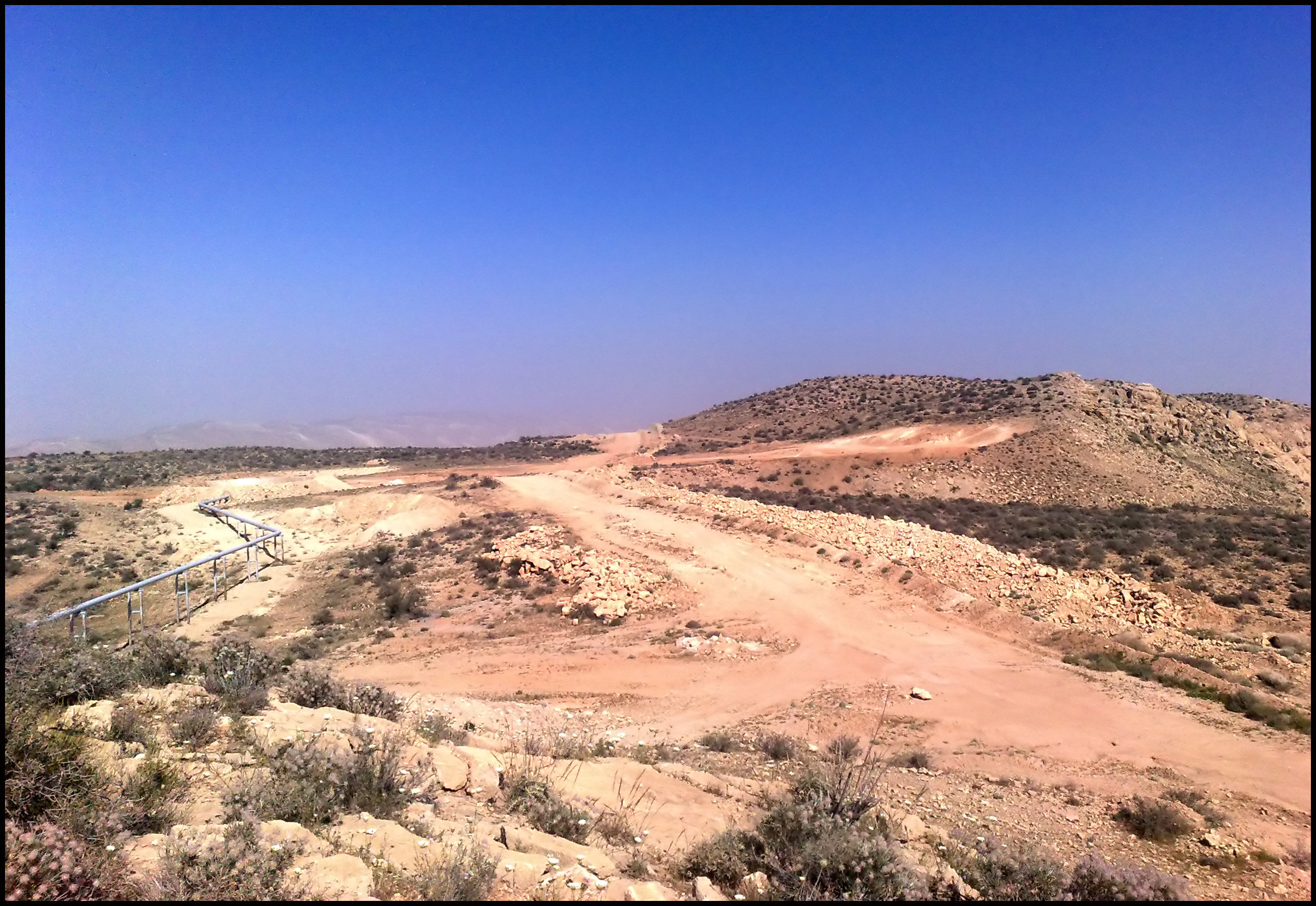 Shanoul Gas Field, Tange Khoor Mount. میدان گازی شانول، کوه تنگ خور